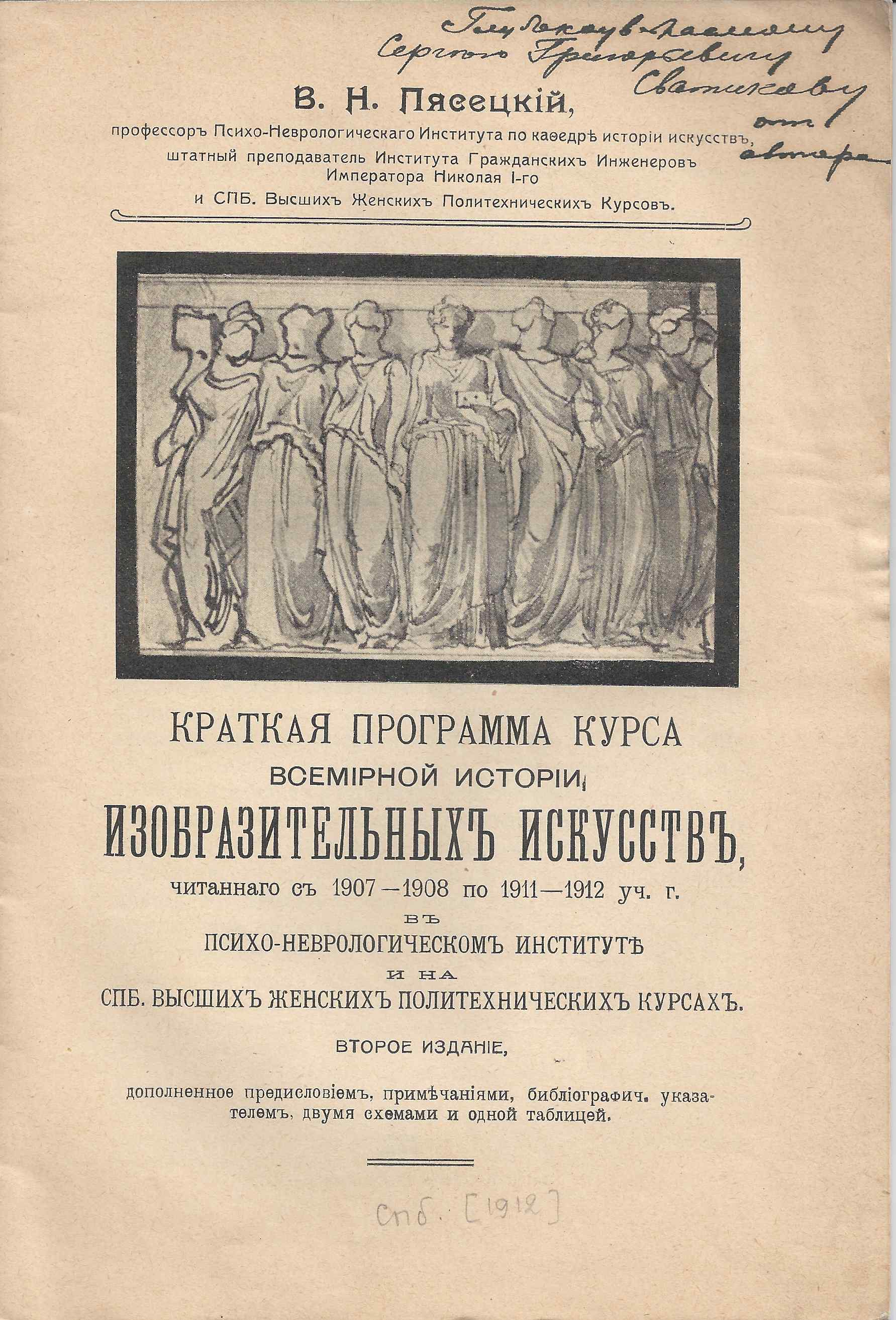 The title page of the book "Краткая программа курса всемирной истории изобразительных искусств" by V. N. Pyasetsky with the dedicatory inscription to Sergei Svatikov (1880–1942), the historian and political figure